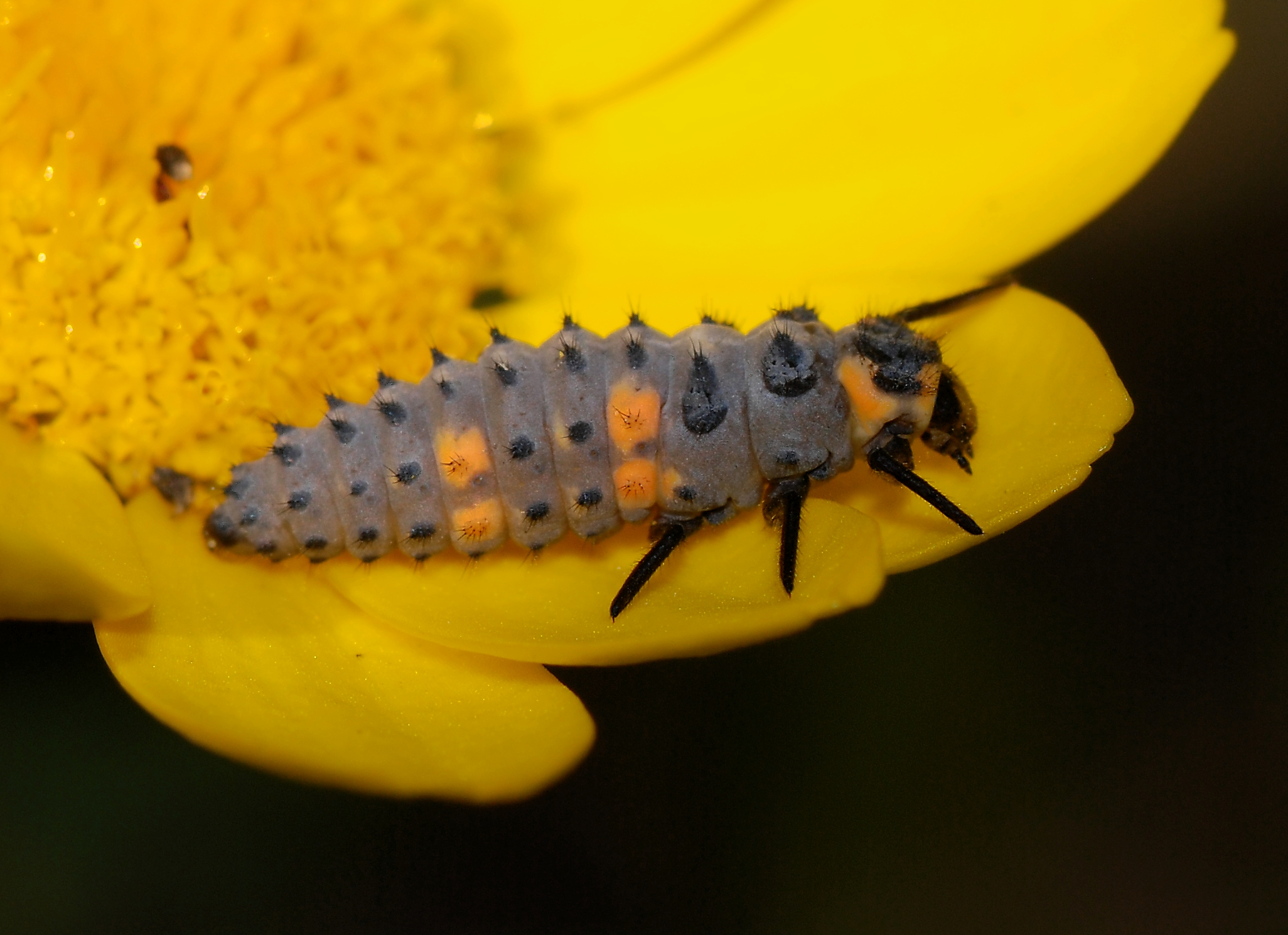 The larva of a ladybird (Coccinella septempunctata).